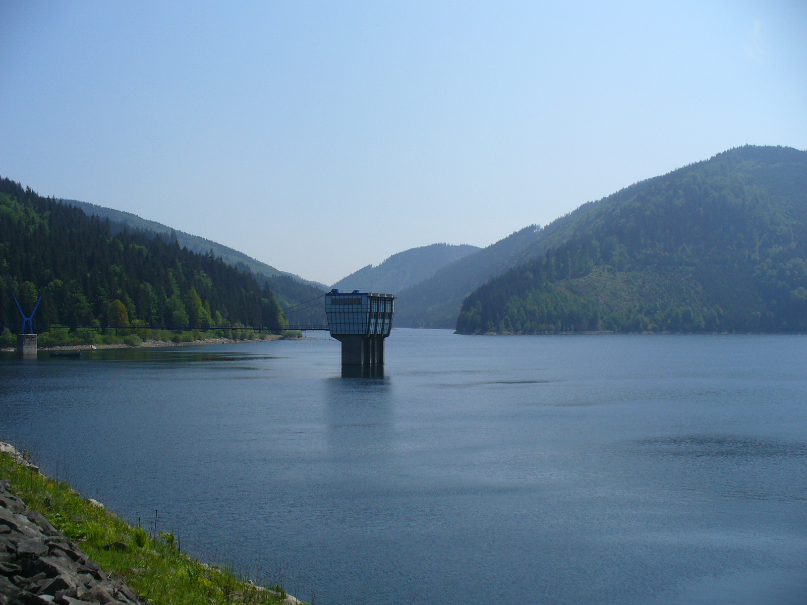 Reservoir Šance in Beskydy (Czech Republic)